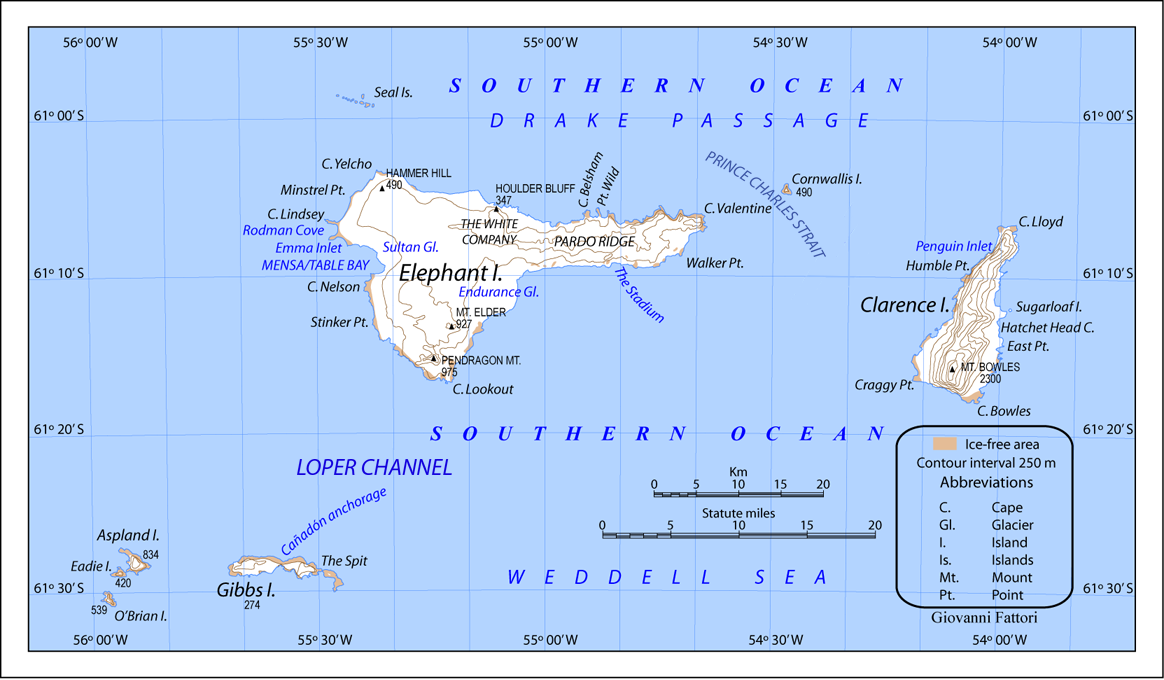 Piloto Pardo Islands Map. Conic A projection. Standard parallel -61.25